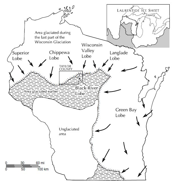 Maximum extent of the Laurentide ice sheet in Taylor County (and Wisconsin) during the last glaciation.